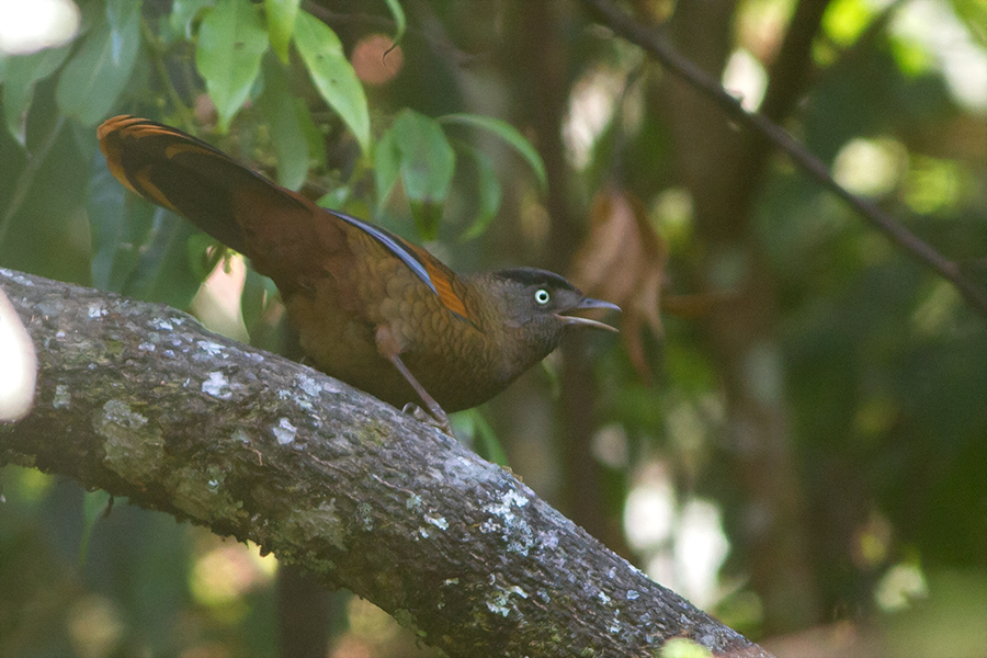 The species Blue-winged Laughingthrush had been photographed from Pangolakha Wildlife Sanctuary in Sikkim from India on 30.10.2016 during the bird watching tour of GoingWild.